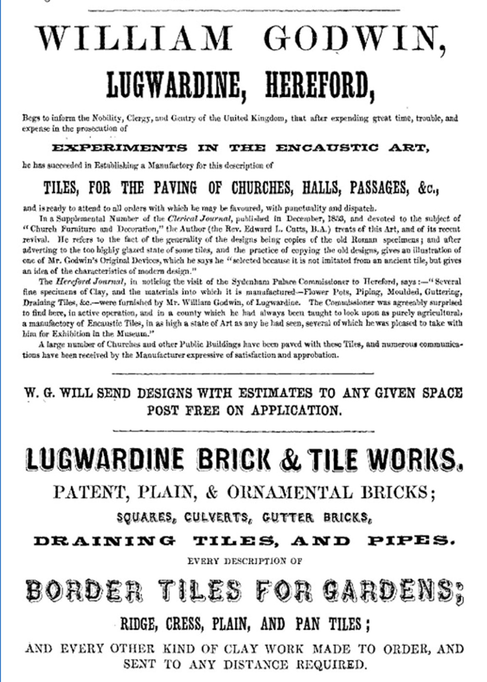 Advertisement for Godwin tiles in 1863